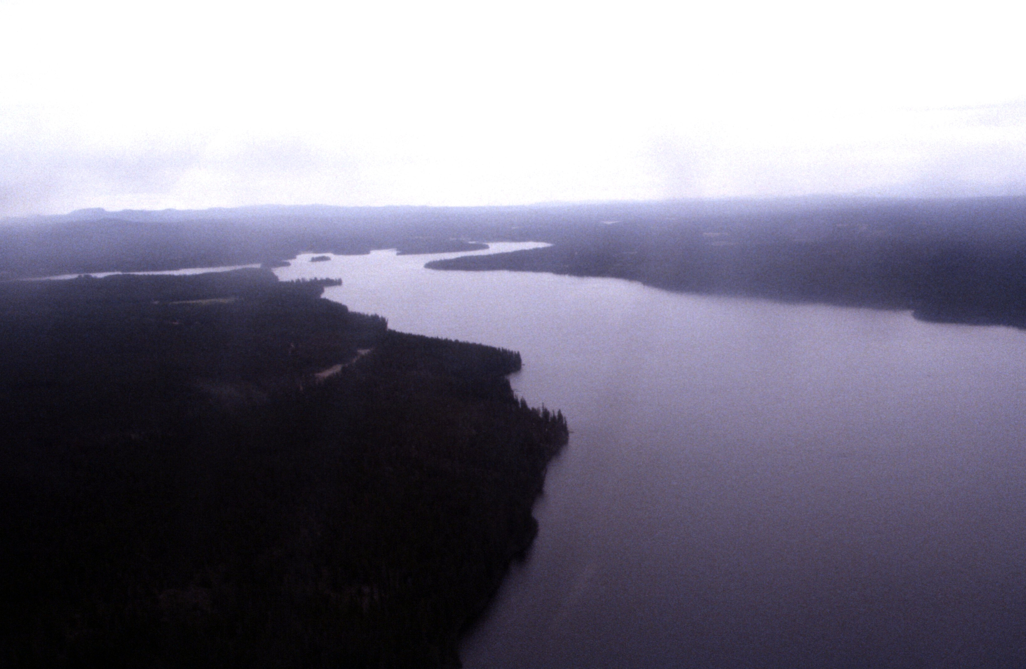 Nimpo Lake as seen from a plane in August 1981.